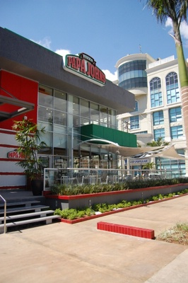 Papa Johns in Santo Domingo